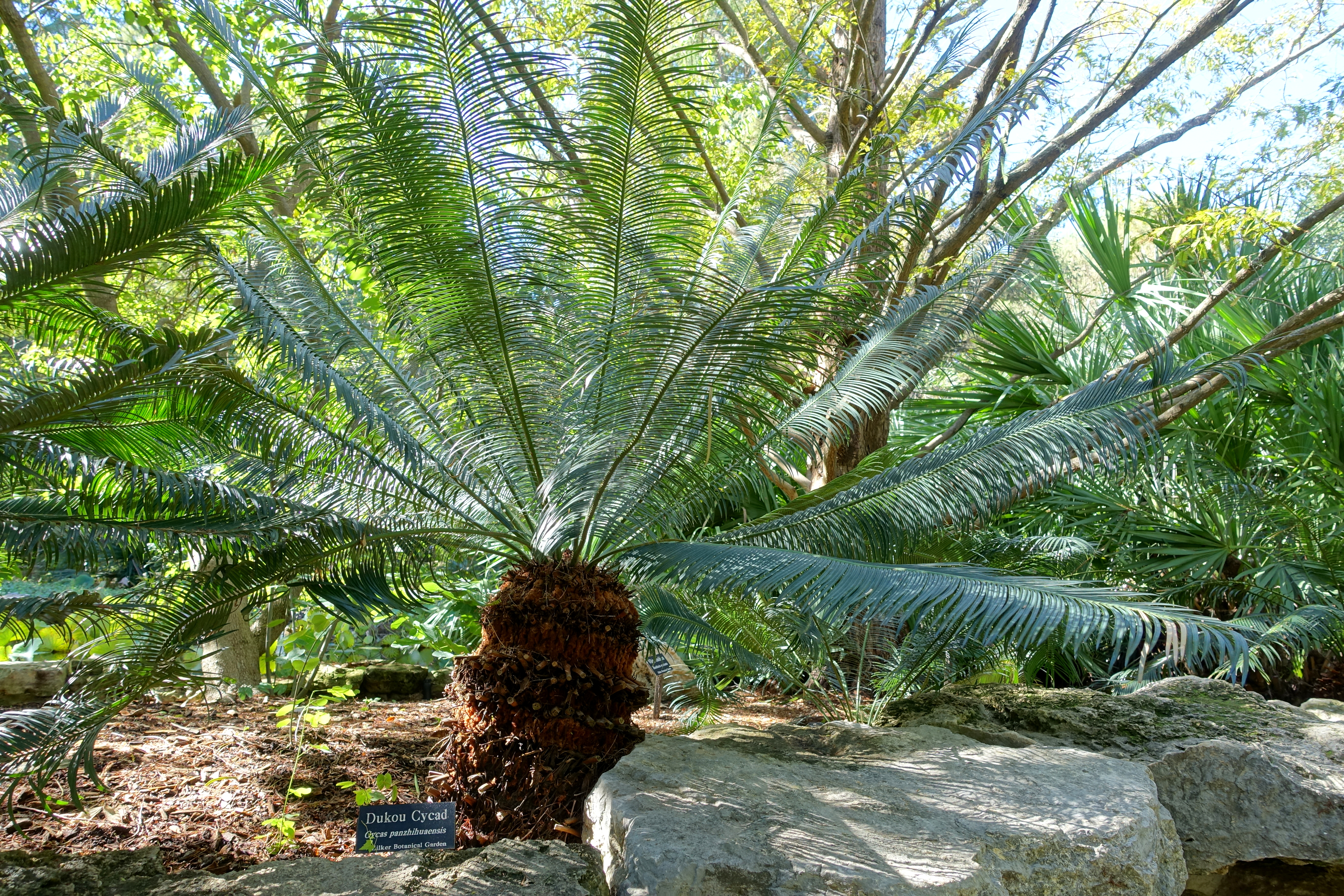 Botanical specimen in the Zilker Botanical Garden - Austin, Texas, USA.